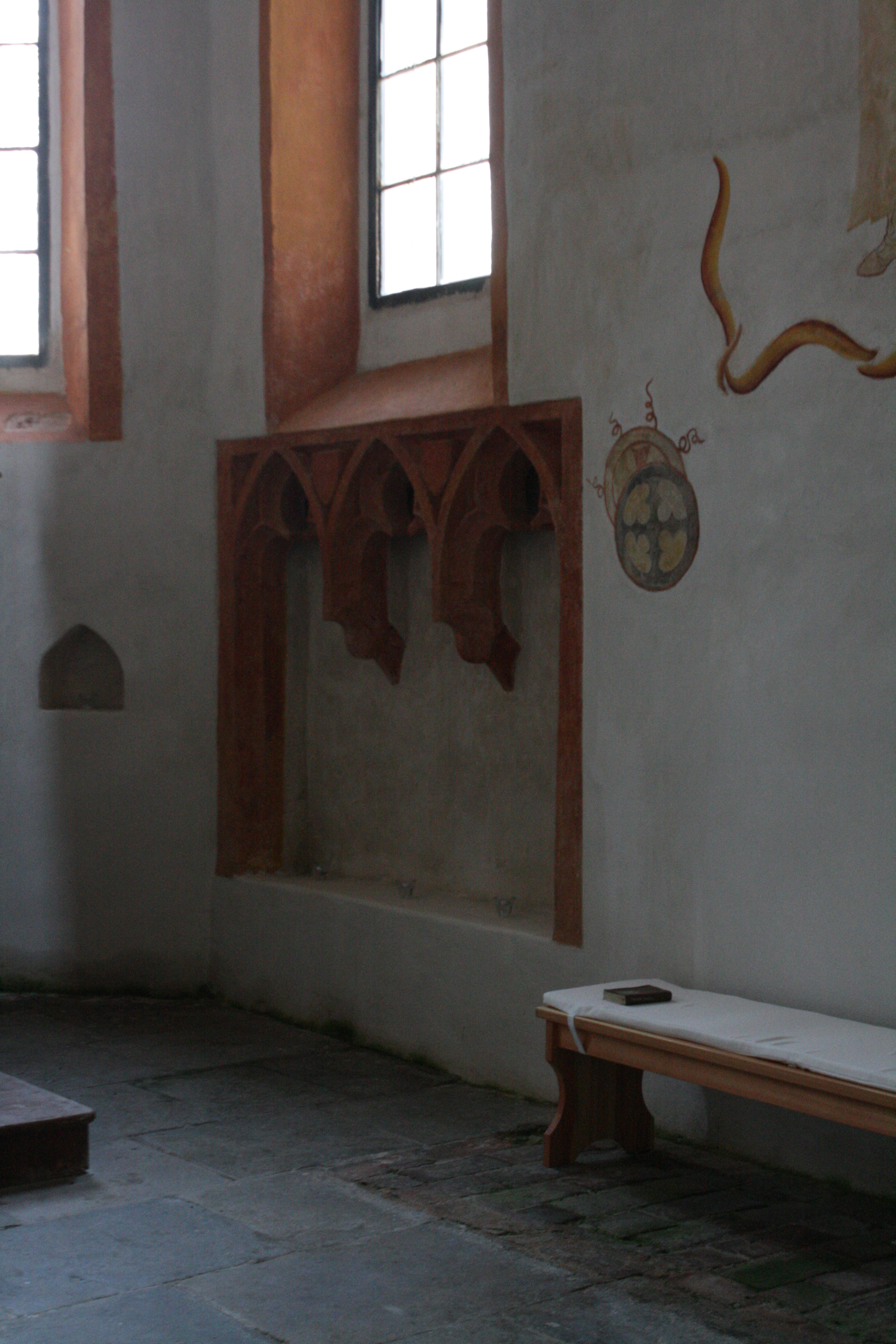 Mladošovice, Church of of Saint Bartholomew (interior)